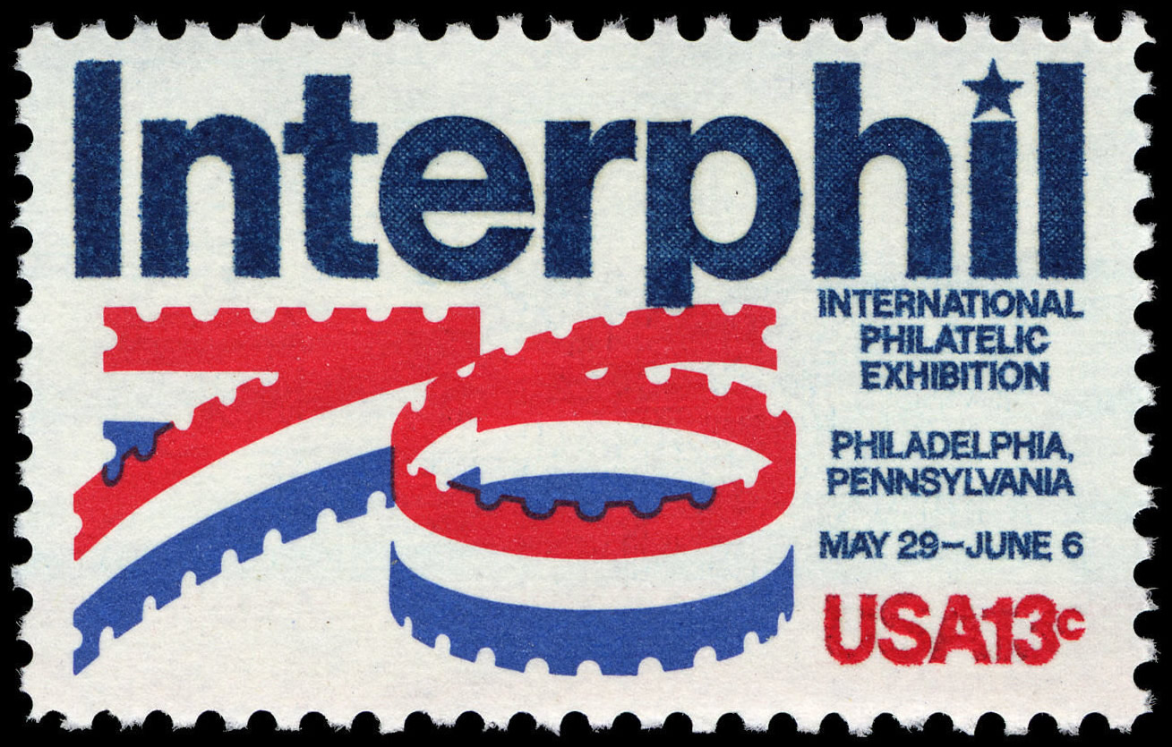 Interphil 13-cent 1976 issue U.S. stamp